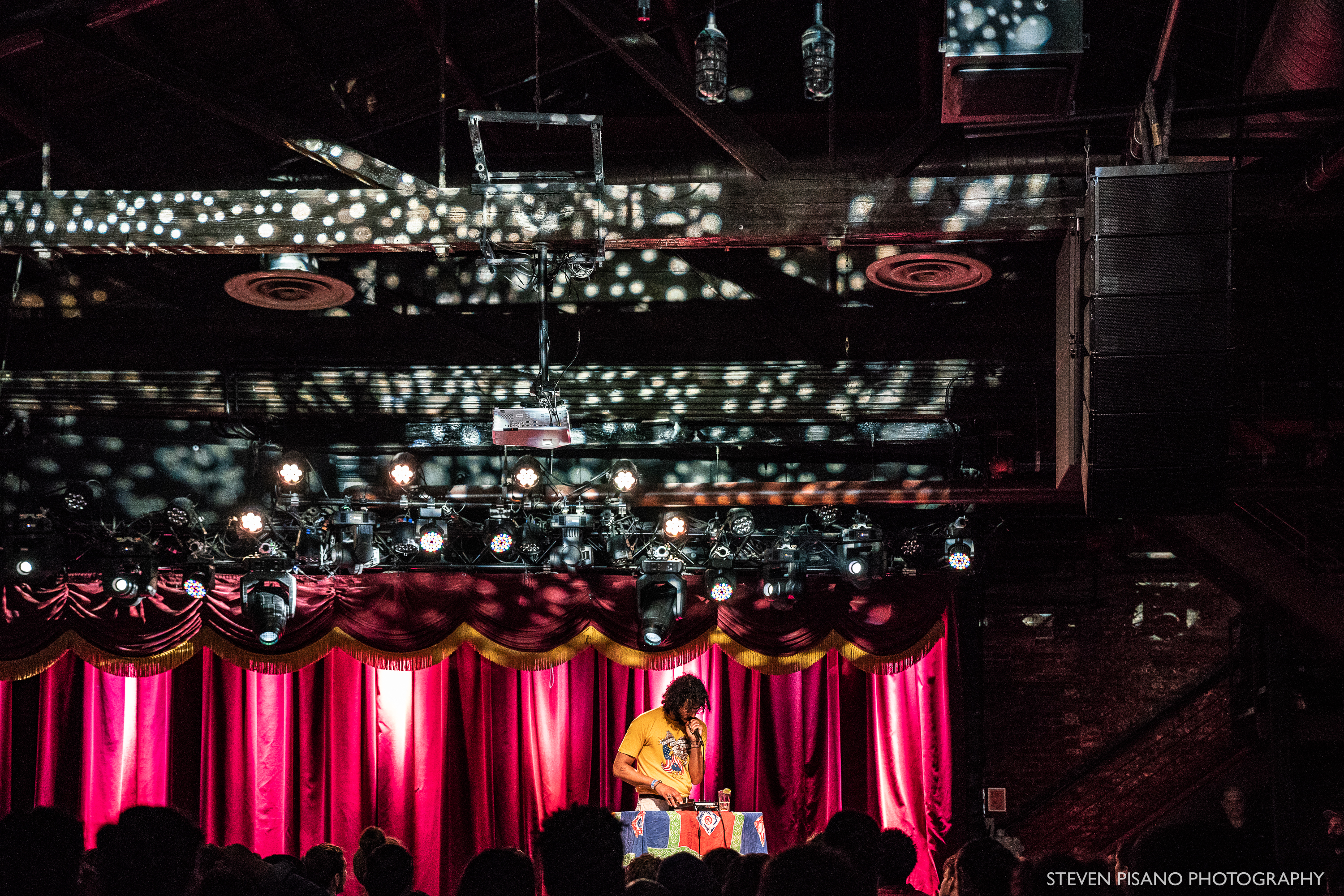 June 7, 2018 Brooklyn Bowl Milo Photo by Steven Pisano.